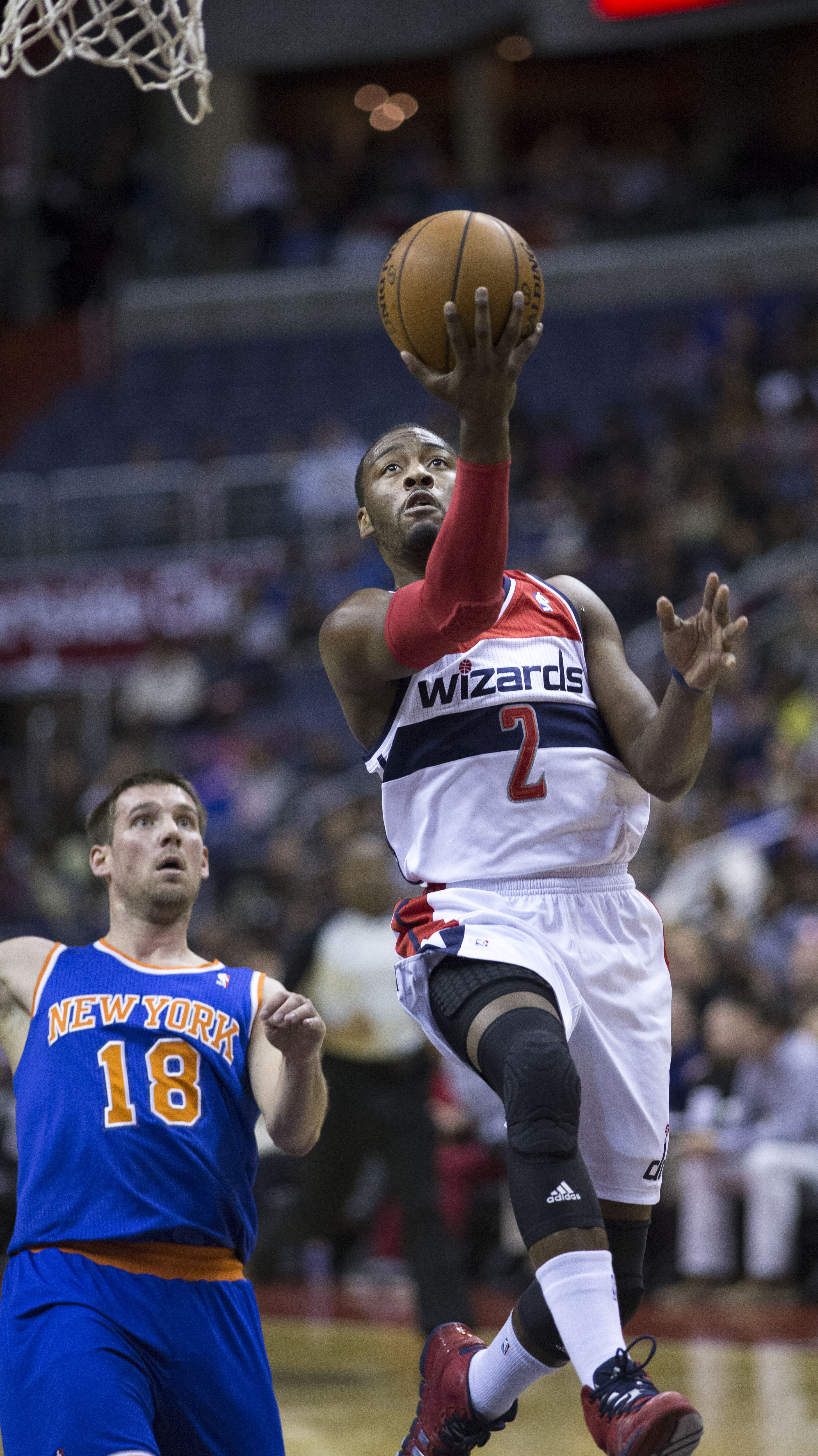 Knicks at Wizards 11/23/13